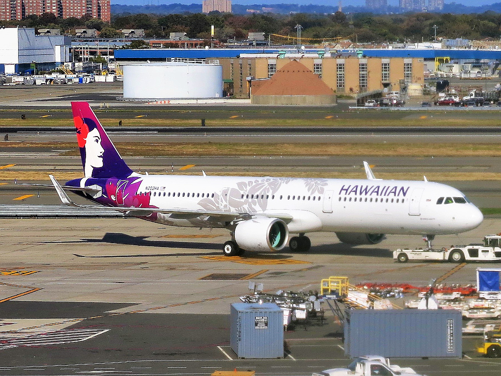 The first Airbus A321neo for Hawaiian Airlines, but not yet in service with the airline, an Airbus A321neo in Hawaiian Airlines colors is being parked at John F. Kennedy Airport at the JetBlue terminal apron while halfway through its delivery flight.